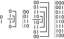 Diagram of generating a Gray code. Made by Derrick Coetzee in Illustrator and Photoshop.